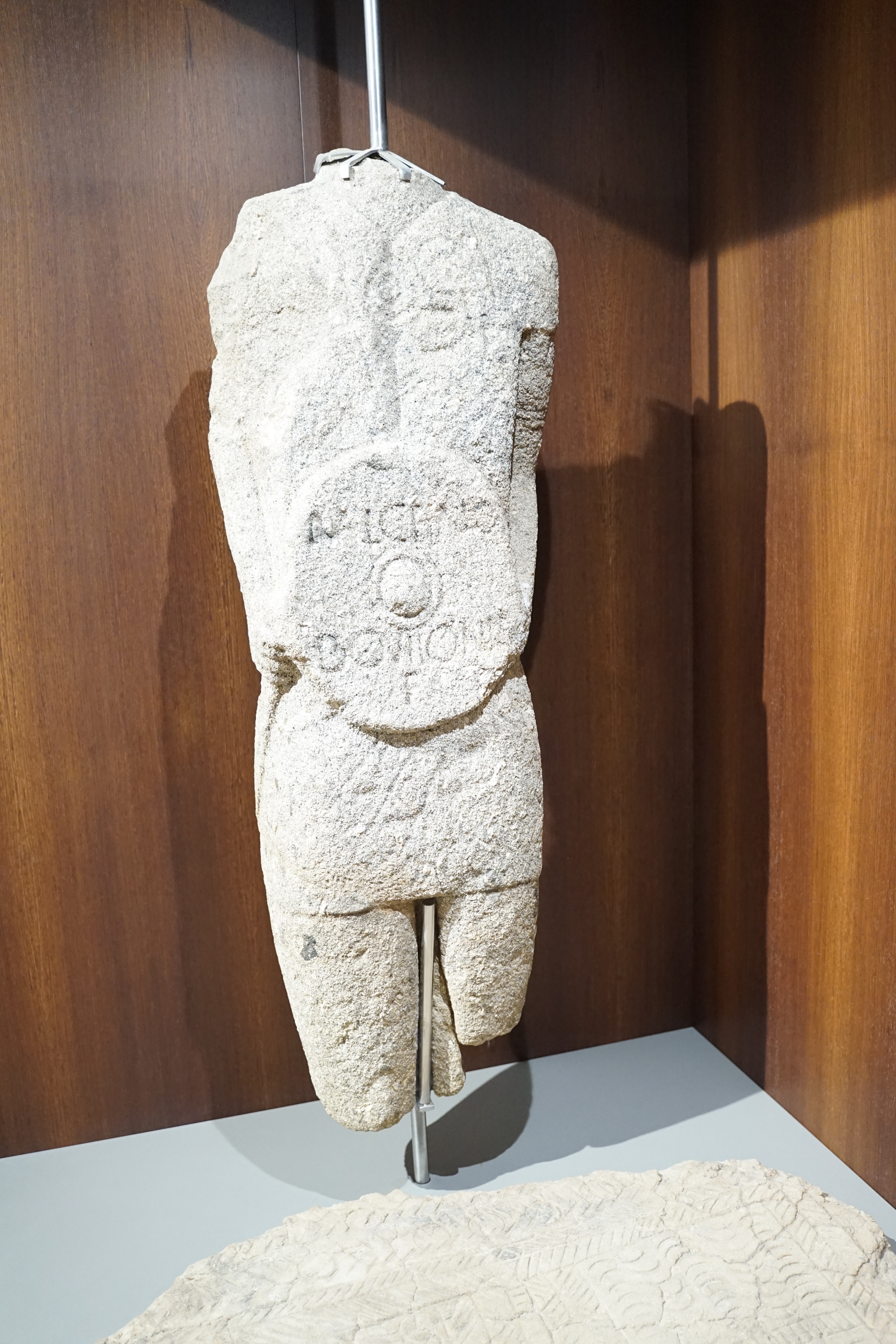 Collections of the D. Diogo de Sousa Museum, Braga, Portugal.